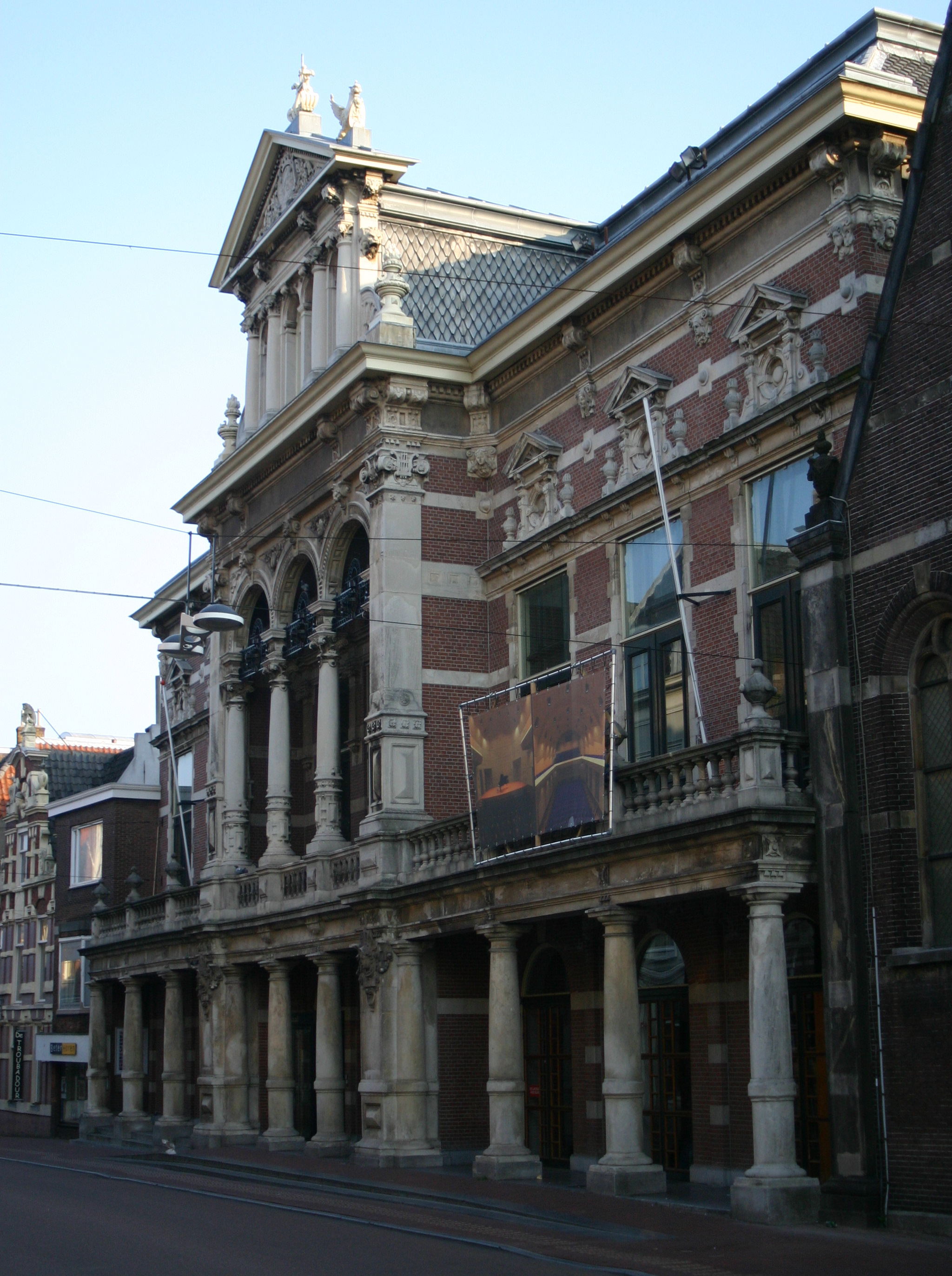 The municipal concert hall (stadsgehoorzaal) of the city of Leiden (1890-1891) designed by D.E.C. Knuttel